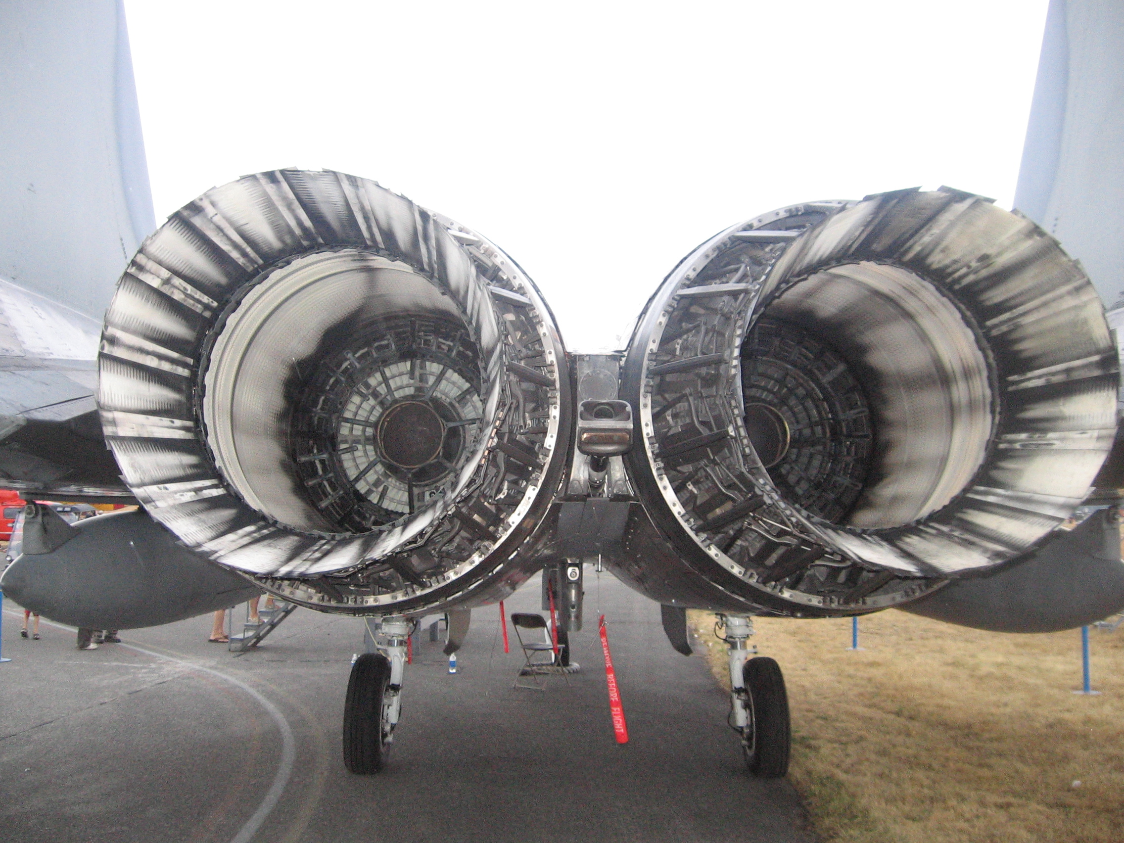 The Pratt & Whitney F100-229 turbofan engines of an F-15C Eagle